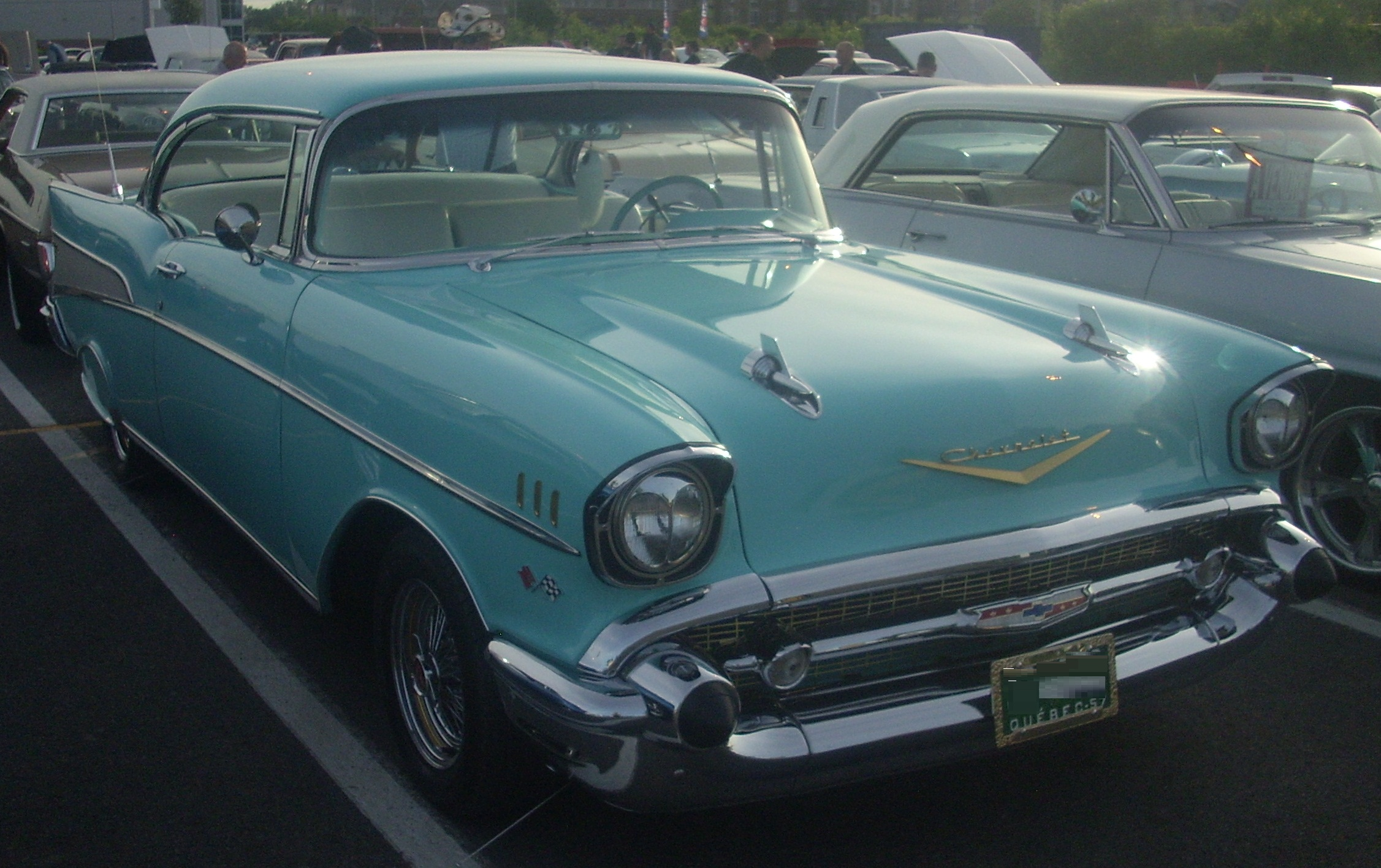 1957 Chevrolet Bel Air photographed in Laval, Quebec, Canada at Centropolis Laval.